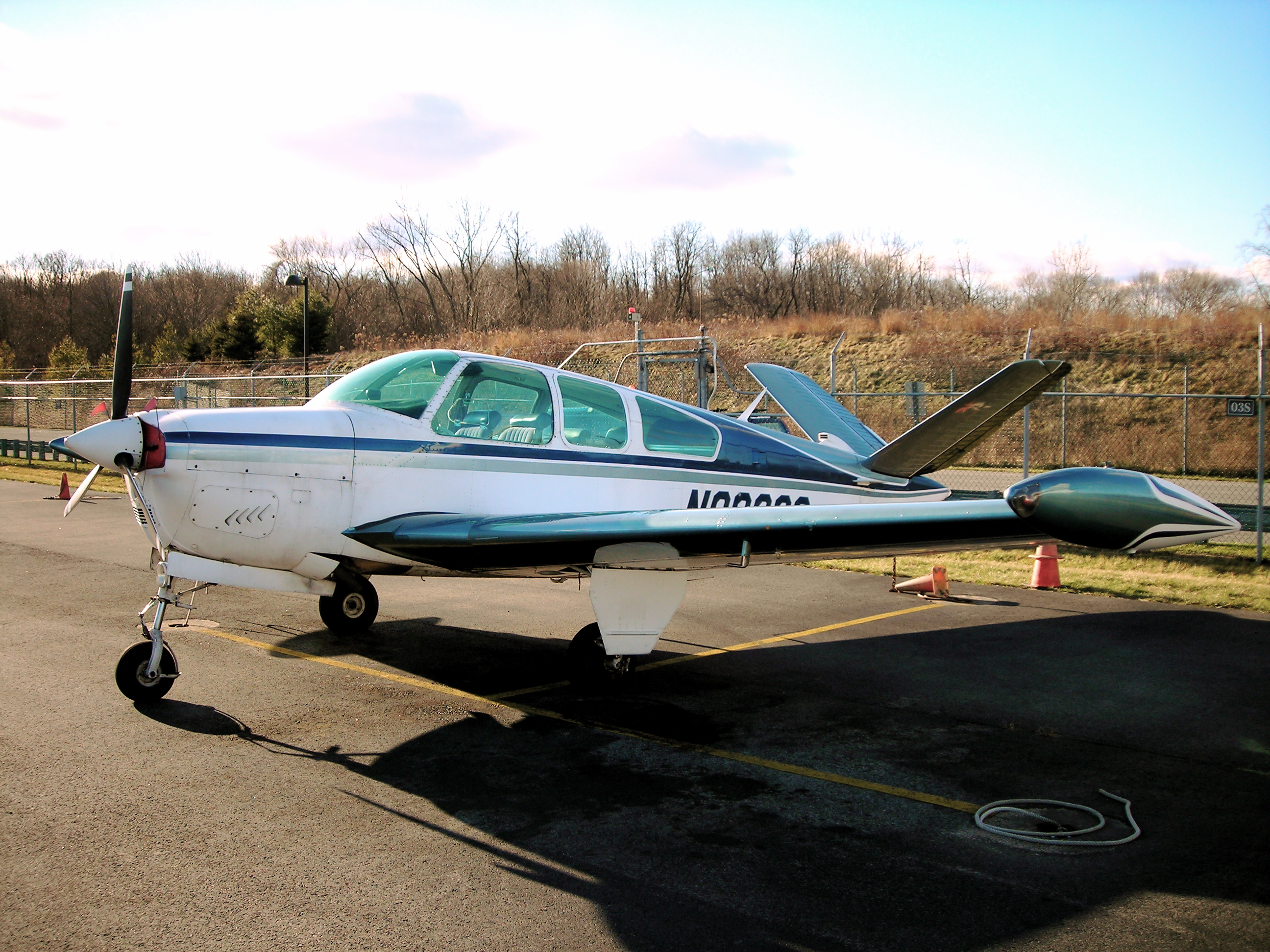 1965 Model S35 V-Tailed Beechcraft Bonanza, equipped with auxiliary wingtip fuel tanks.